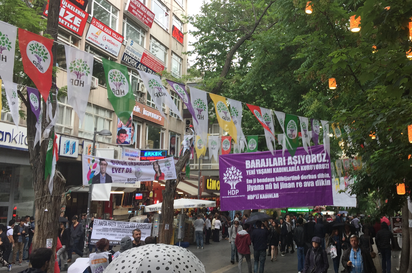 Peoples' Democratic Party (HDP) election propaganda during the 2015 Turkish general election campaign.